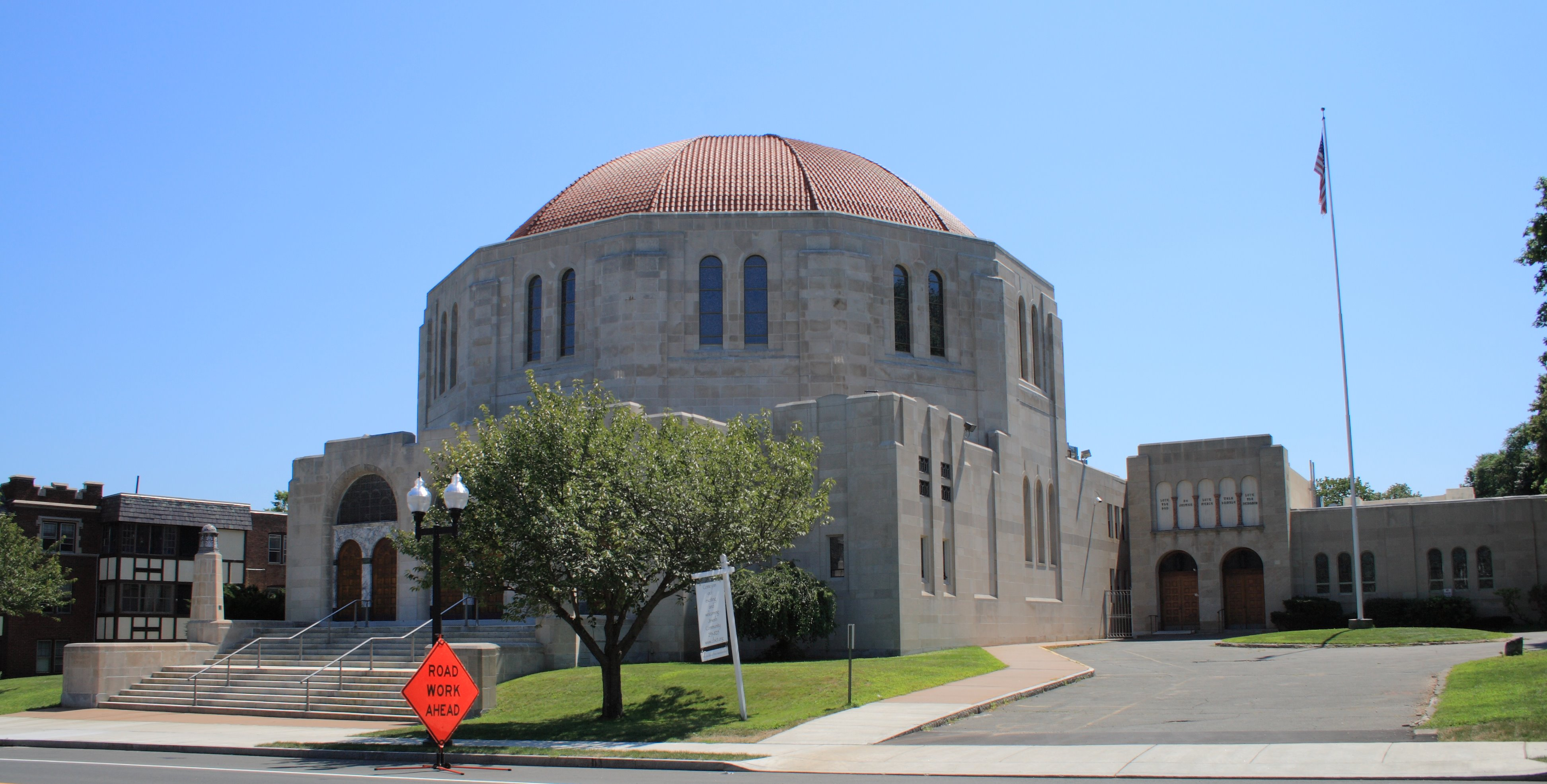 The Temple Beth Israel, 701 Farmington Ave., a Registered Historic Place in West Hartford, Connecticut